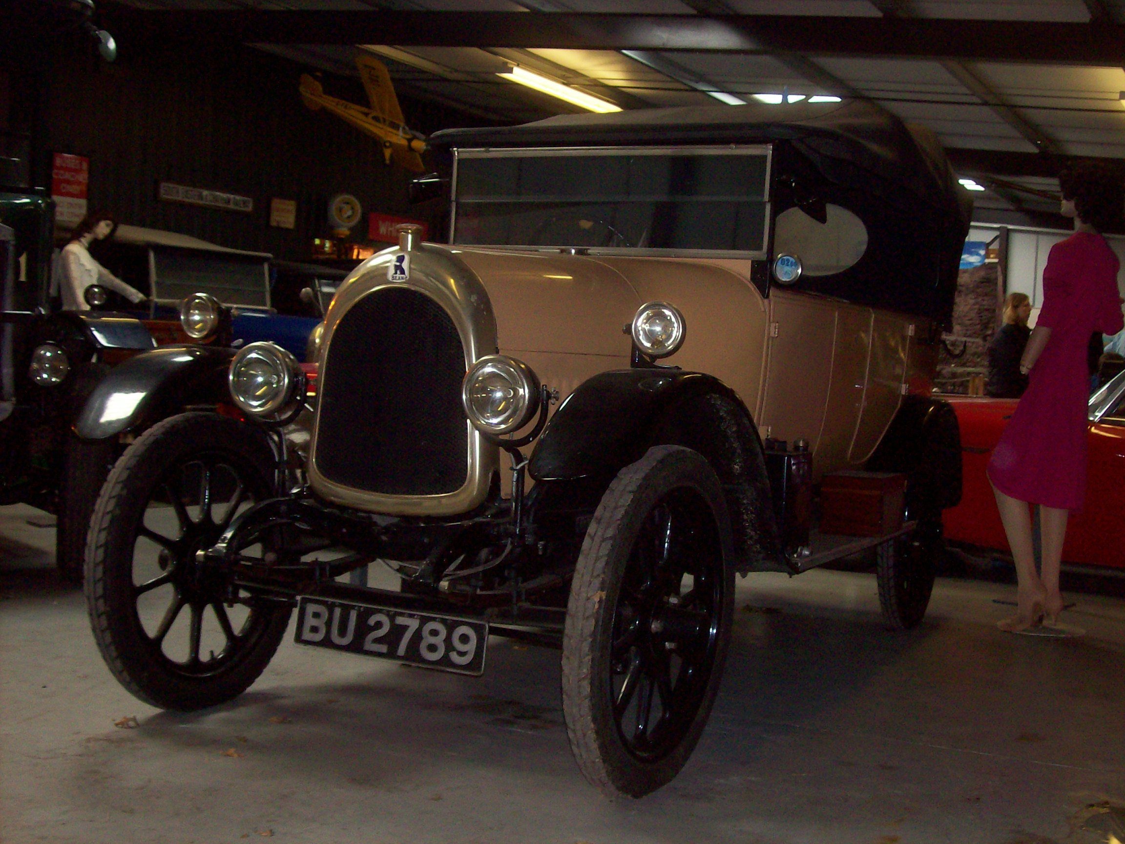 1923 Bean 11.9 HP Model 2 at the Bredgar and Wormshill Light Railway. The County Borough of Oldham issued its registration mark.